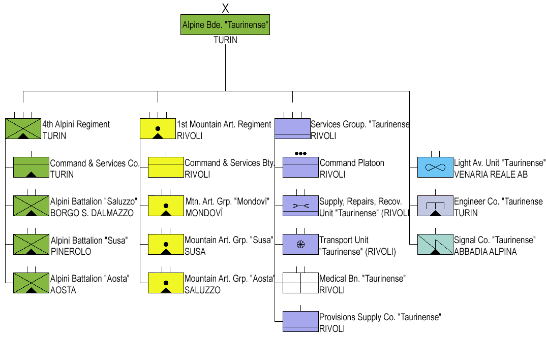 Structure of the Italian Army "Taurinense" Alpine Brigade in 1974